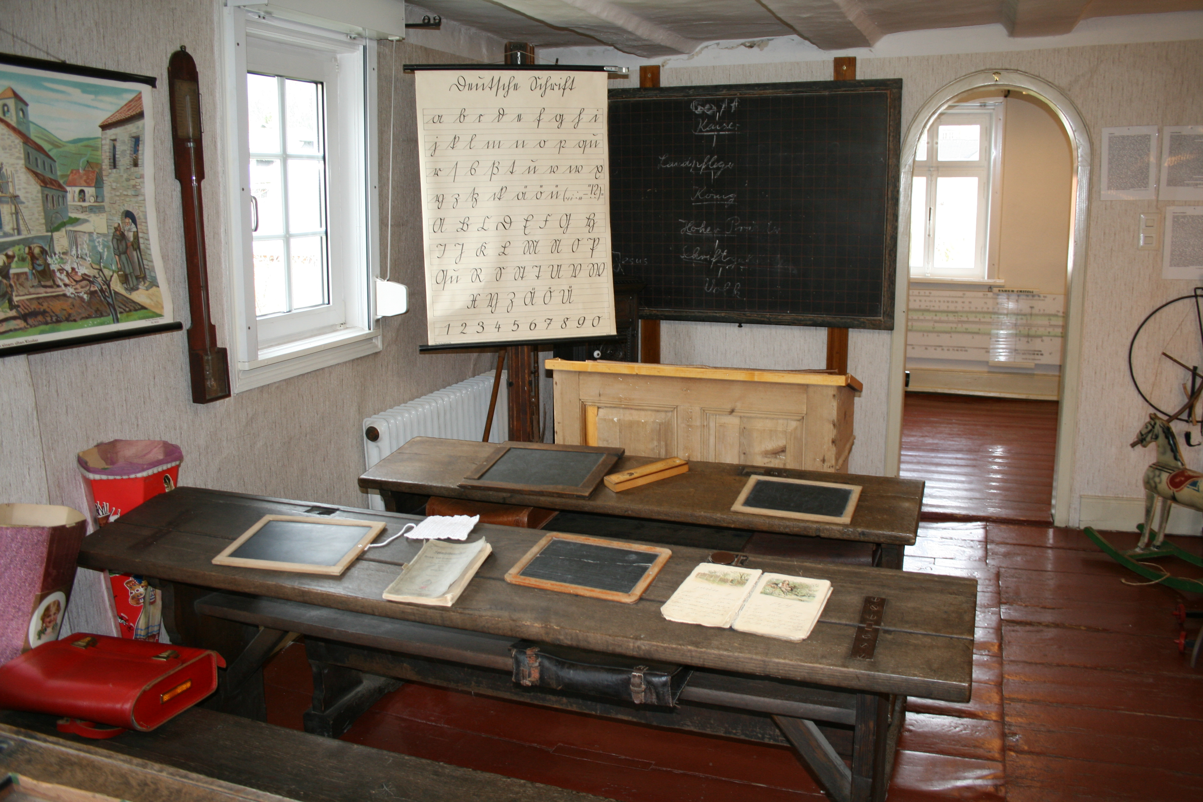 Exhibition of the local museum of Banfe (Heimatmuseum Banfetal), NRW, Germany. Heimatmuseum Banfetal LocationBanfeCoordinates50° 54′ 43″ N, 8° 21′ 00″ E Established1965Authority control : Q20440659